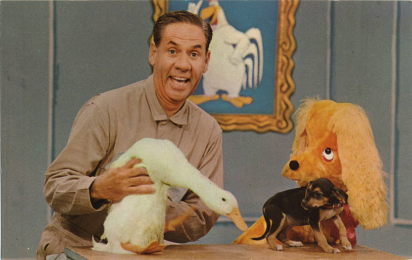 Postcard sent in response to viewer mail from Ray Rayner for his Ray Rayner Show, a popular morning children's television program in Chicago. He is seen holding Chelveston the duck, a fixture on the show. The stuffed dog seen at right is Cuddly Duddley, which started out as a Chicago Tribune subscription premium. The dog later became a puppet character on Rayner's show; the Tribune Company was and is the owner of both the newspaper and television station.